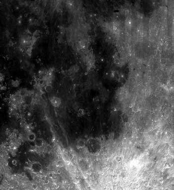 Mare Nubium is in the Nubium basin on the moon's near side. The mare is located just to the southeast of Oceanus Procellarum. The actual basin is believed to be of Pre-Nectarian system, with the surrounding basin material being of the Lower Imbrian epoch. The mare material is of the Upper Imbrian epoch. The crater to the east of the mare is Bullialdus, which is of the Eratosthenian Epoch. This means the crater is younger than the mare it sits in The crater that sits on the southern rim of the mare is Pitatus. You can clearly see the rays from Tycho at the bottom of the photo. Mare Cognitum and Fra Mauro are seen toward the top.